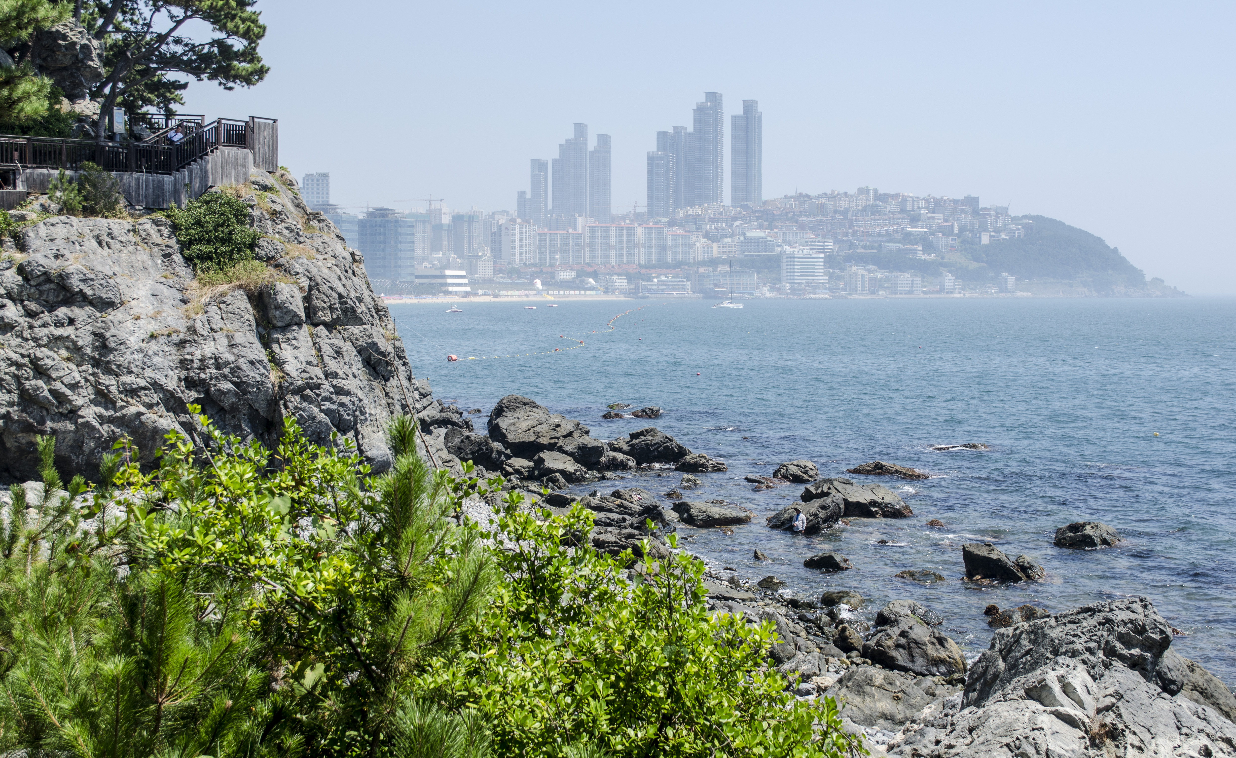 View of Dalmaji Hill in Busan, South Korea. Photograph from Flickr; author StephNurnberg; license of cc by 2.0.